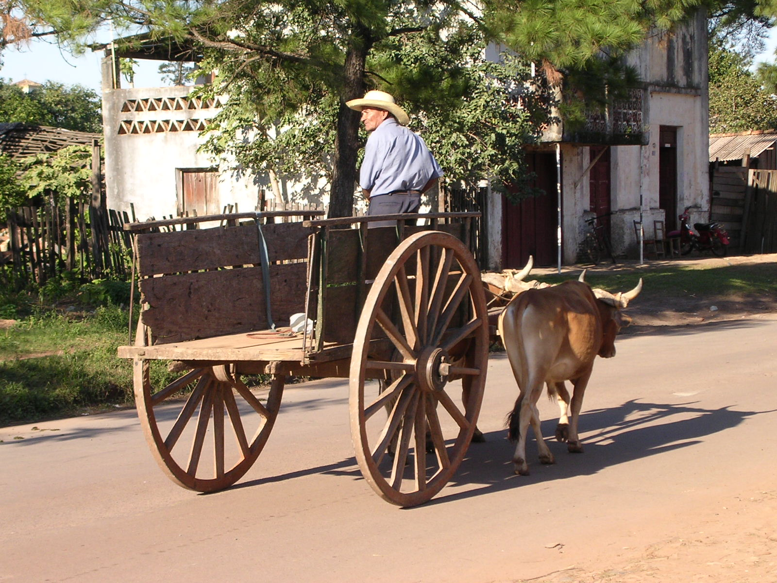 Traditional "Carreta" in the streets of Coronel Oviedo city, in Paraguay.